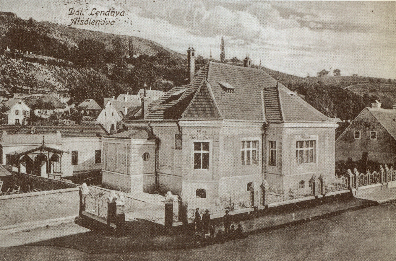 House of Oszkár Laubheimer public notary on a postcard